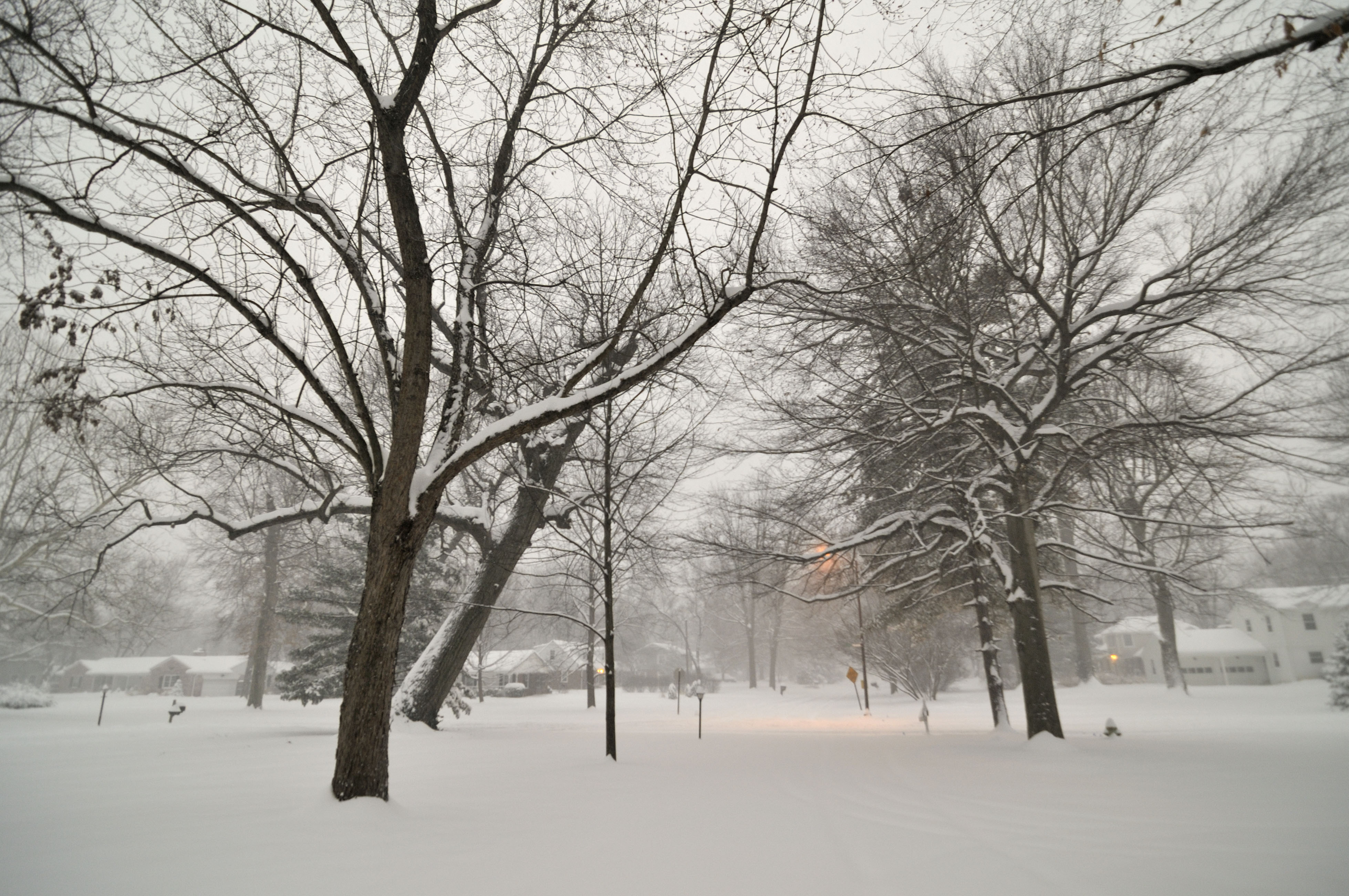 this one without flash. in front of my house